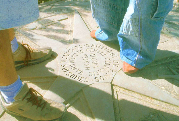 Stone slab showing the geographic center of Catalonia, in El Pinós (Solsonès).